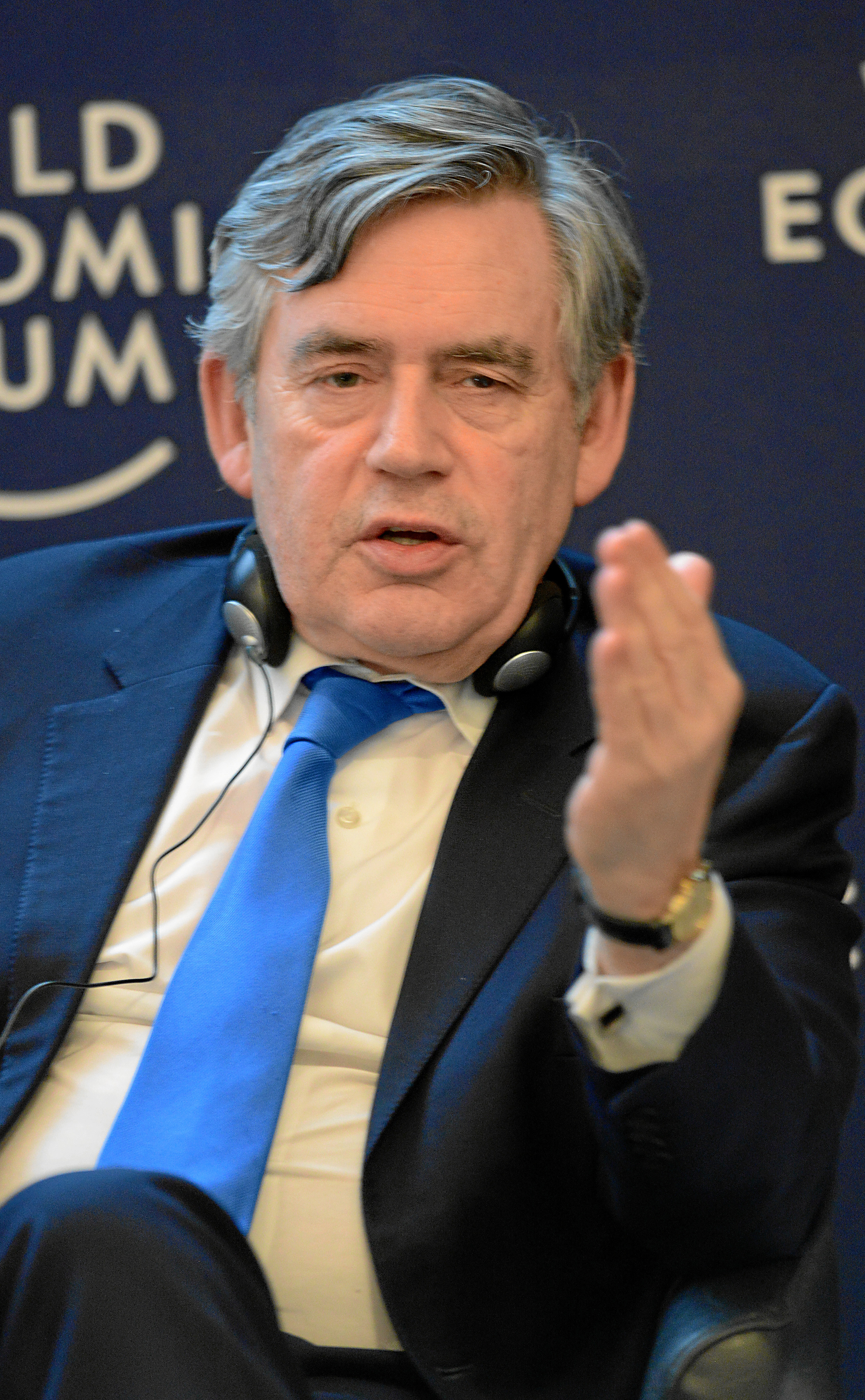 DAVOS/SWITZERLAND, 24JAN13 - Gordon Brown, UN Special Envoy for Global Education; Prime Minister of the United Kingdom (2007-2010) gestures during the session 'Accelerating Infrastructure Development' at the Annual Meeting 2013 of the World Economic Forum in Davos, Switzerland, January 24, 2013. . . Copyright by World Economic Forum. . Michael Wuertenberg